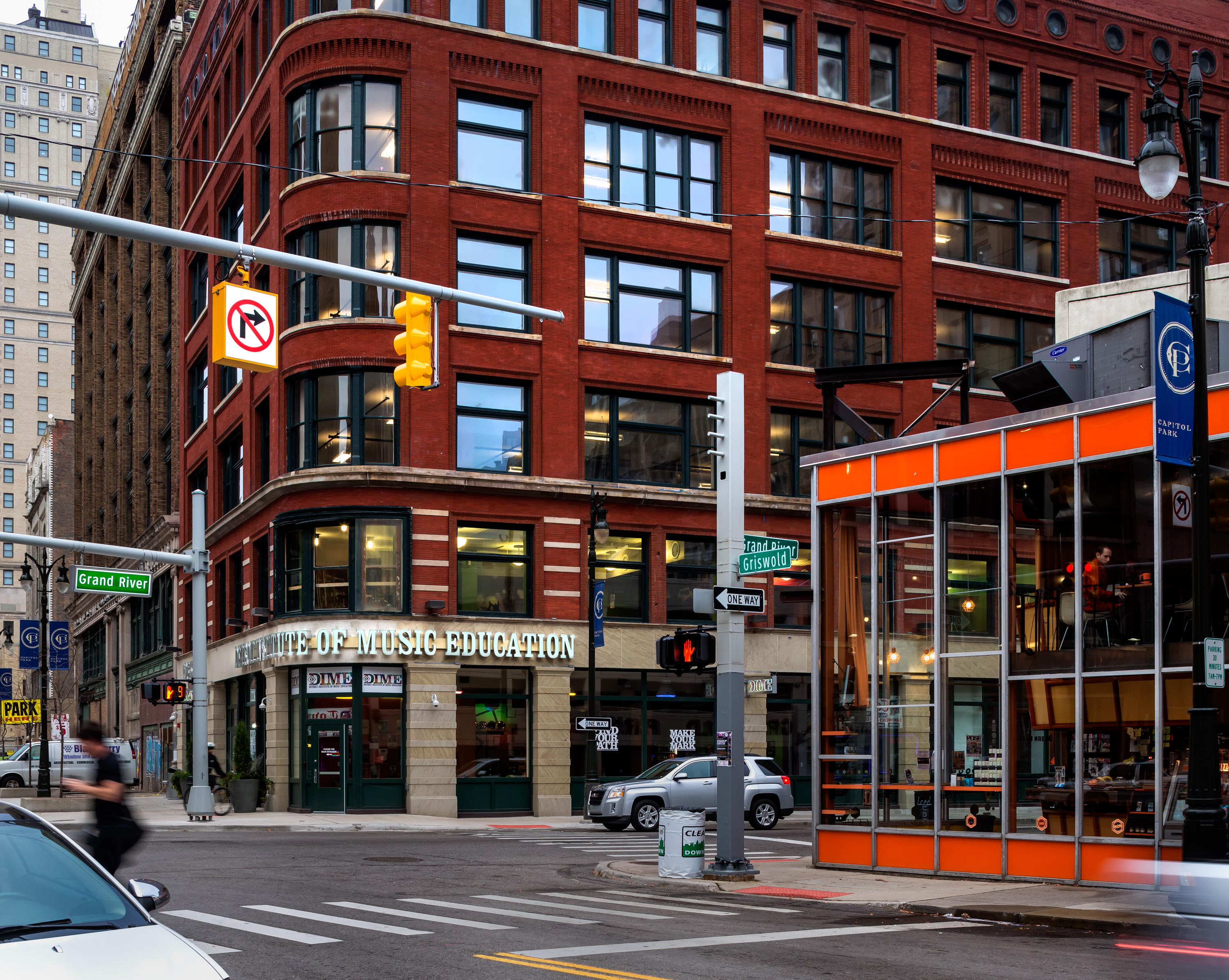 The Detroit Institute of Music Education and Urban Bean Coffee sit at the corner or Griswold and Grand River